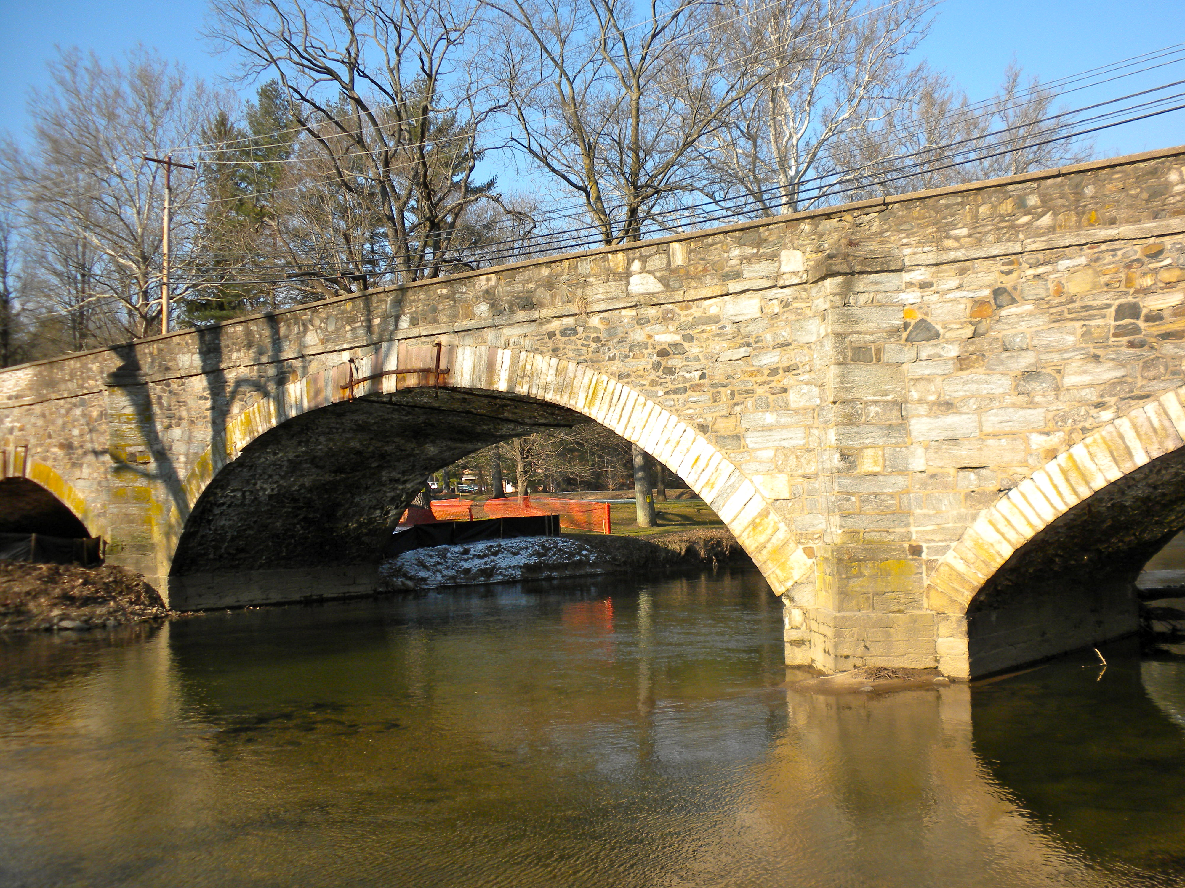 Cope's Bridge over the East Branch Brandywine Creek on Strasburg Road in Chester County, east of Marshalton. On the NRHP.